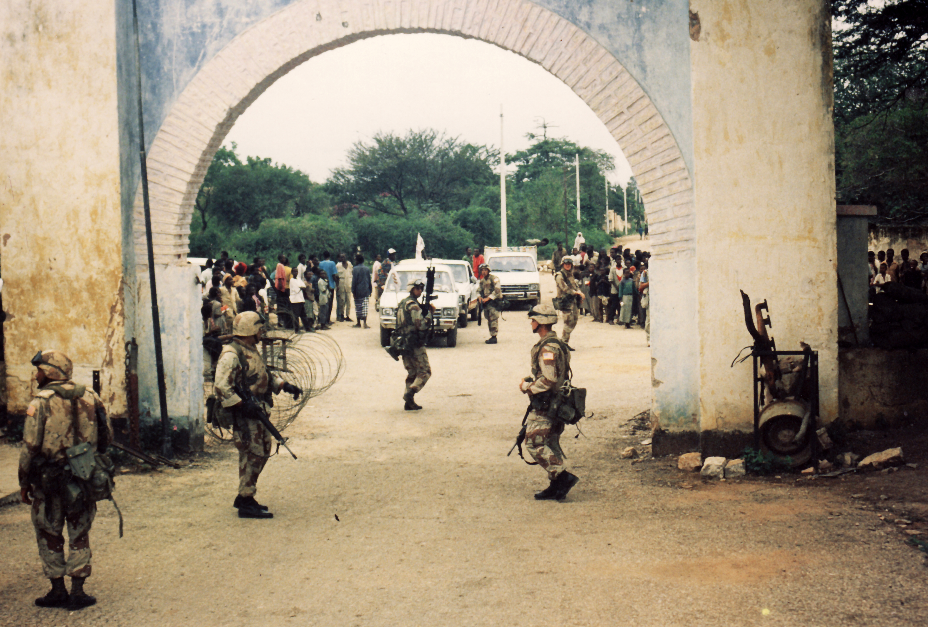 US Army in Somalia 1992, Operation Restore Hope